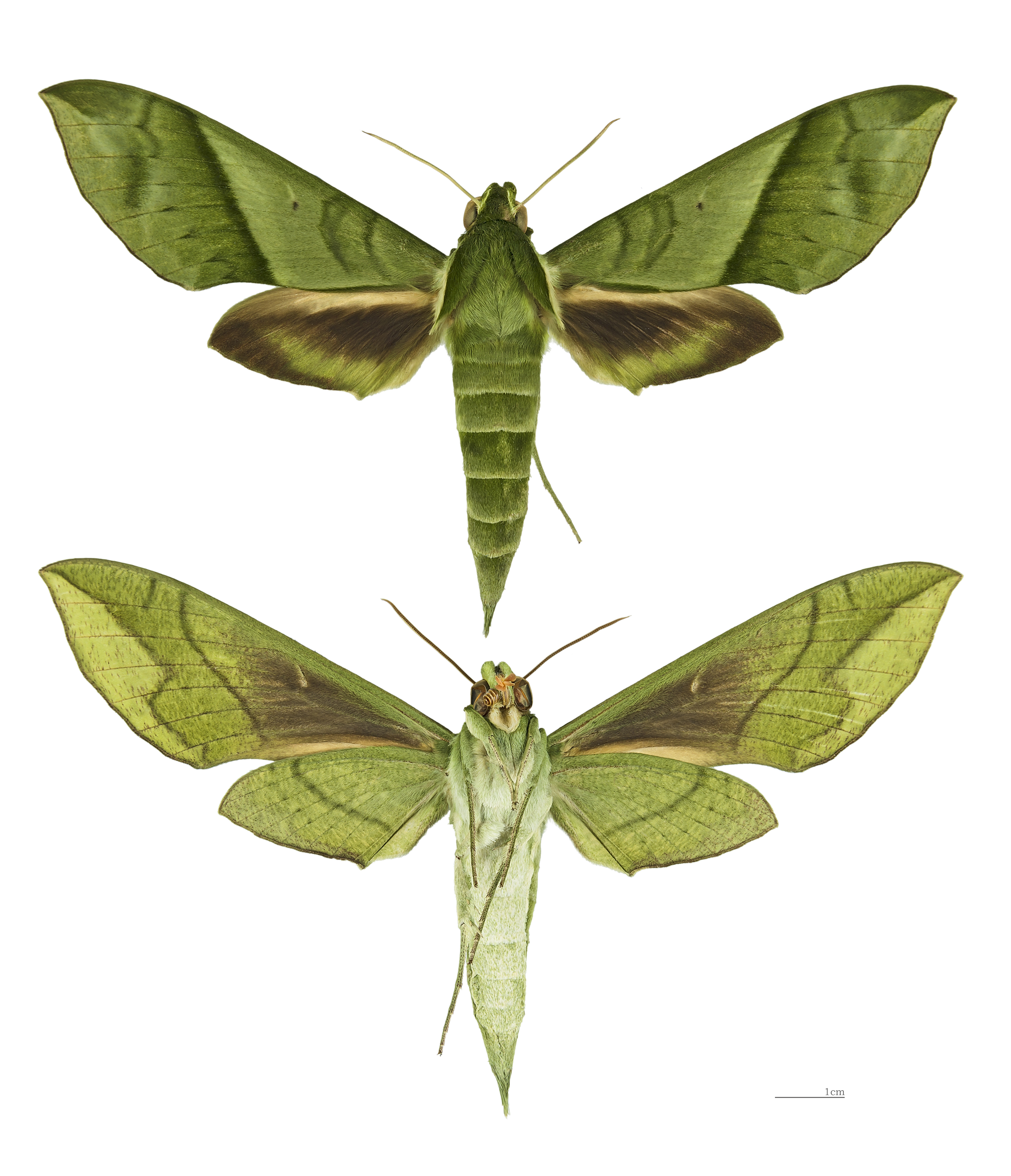 Xylophanes tyndarus - Two views of same specimen.